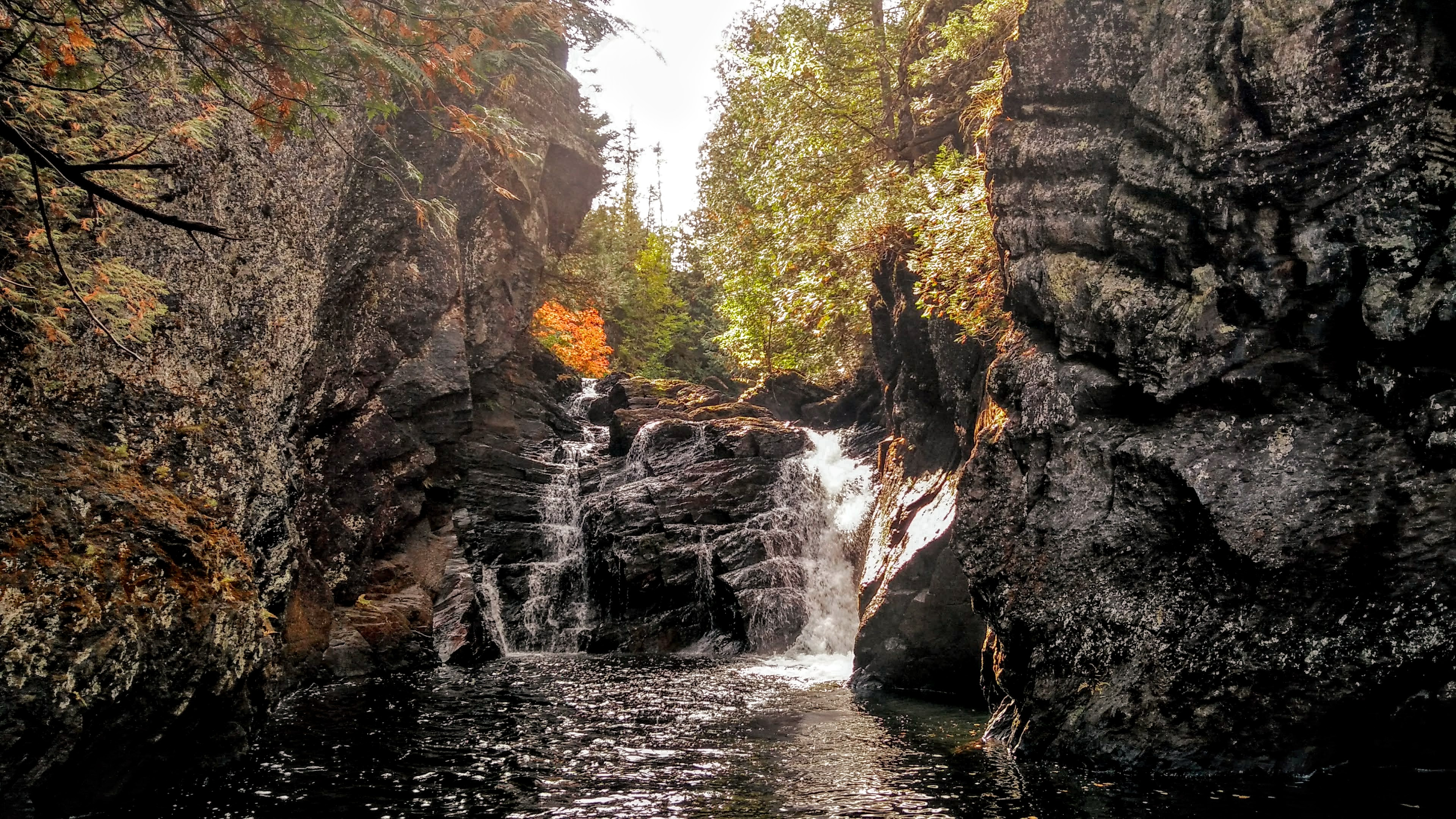 Grotte-des-Fées falls on Blanche river in Saint-Léandre, Quebec.